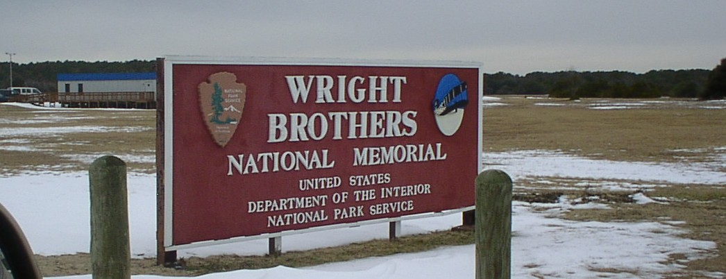 National Park Service sign. Wright Brothers National Memorial, Kill Devil Hills, North Carolina, USA.